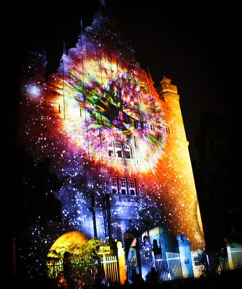 Skyway